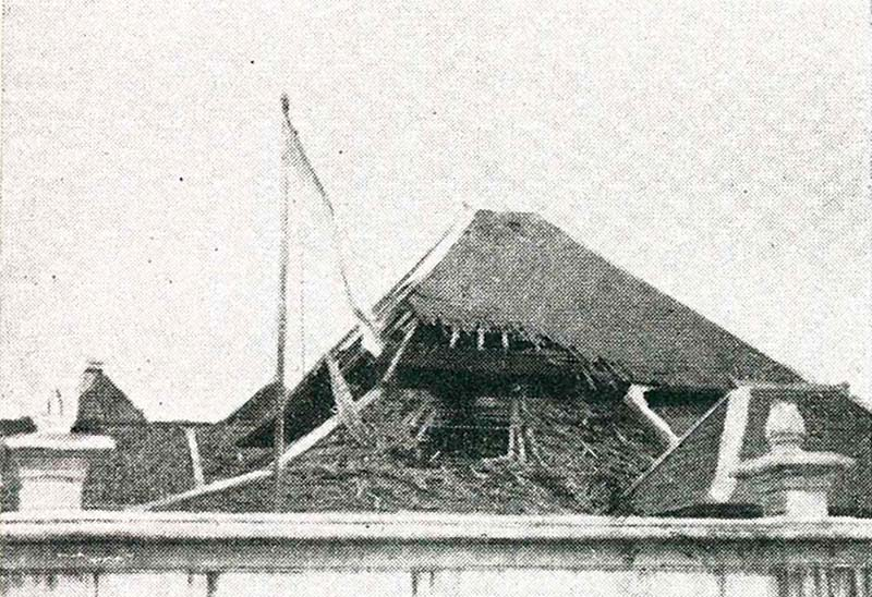 Sonobudoyo Museum after bombing